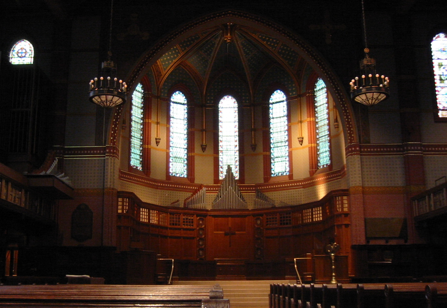 The interior of Yale University's Battell Chapel.